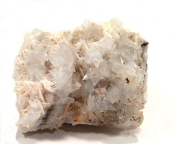 Alstonite Locality: North and Western Region (Cumberland), Cumbria, England, UK (Locality at ) Size: miniature, 5.1 x 4.1 x 2.7 cm Alstonite Sharp crystals to 7mm cover the whole upper face of this very rich specimen, collected by noted English dealer Lindsay Greenbank in 1989 at a rare lucky strike that produced modern specimens at this ancient locality. From his personal collection.